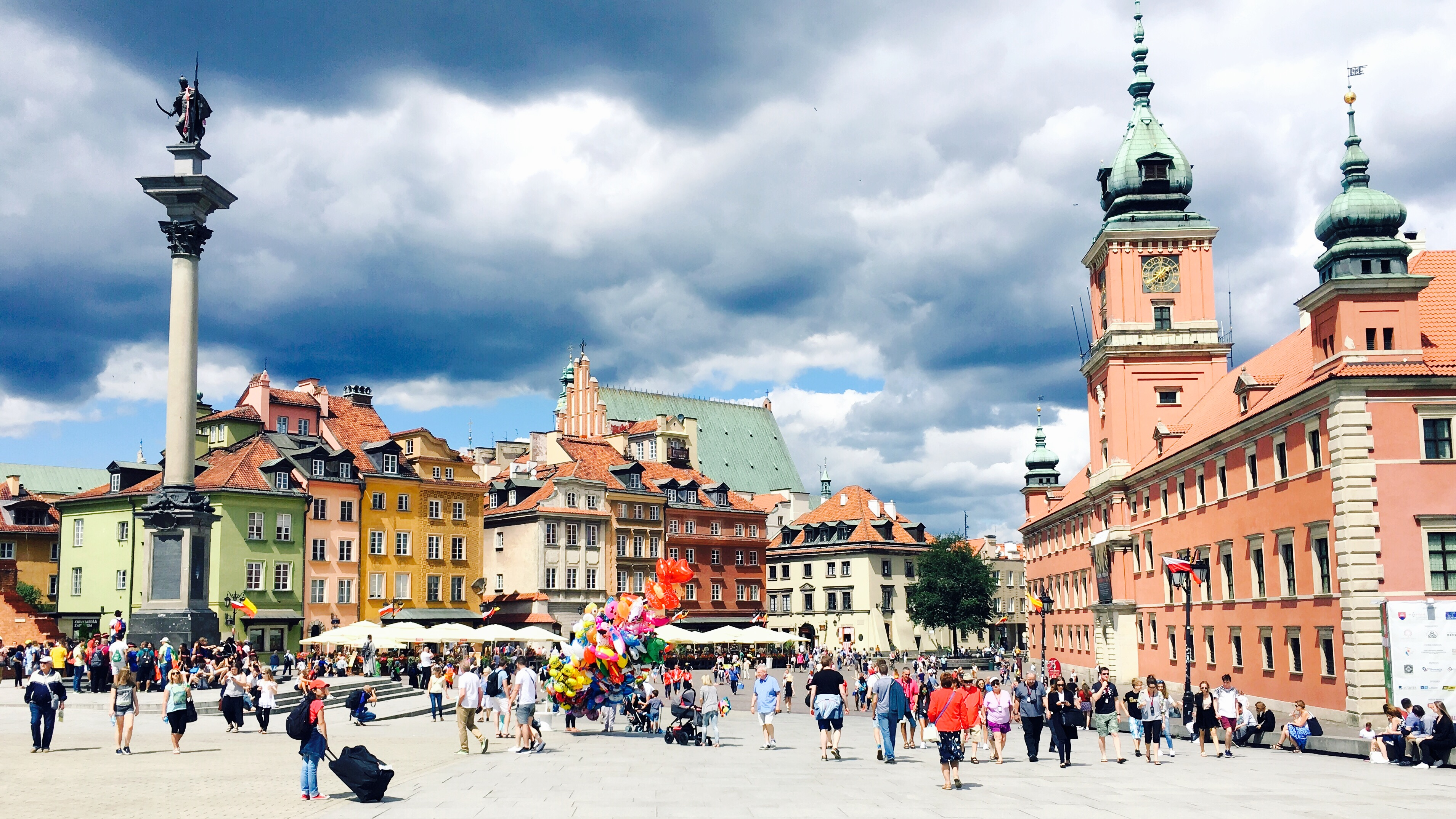 The Castle Square, Warsaw 2016